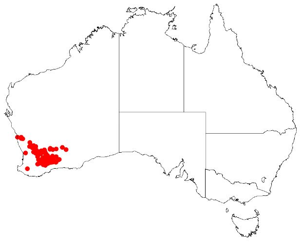 Hakea meisneriana Occurrence data downloaded from AVH on 22 November 2018 using